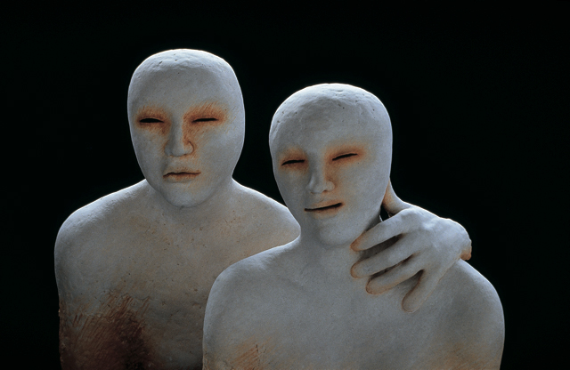 Jindra Viková, Out of Time, 1998, stoneware, 70 x 80 cm